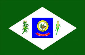 Flag of Sorriso (Mato Grosso) - Copyrited by the brazilian law of Industrial Preperty (Law 9.279/ 14/05/1996)